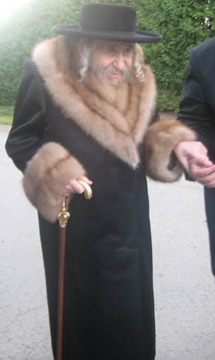 Tosher Rebbe in the Freezing Montreal Winter in his cozy Bekishe